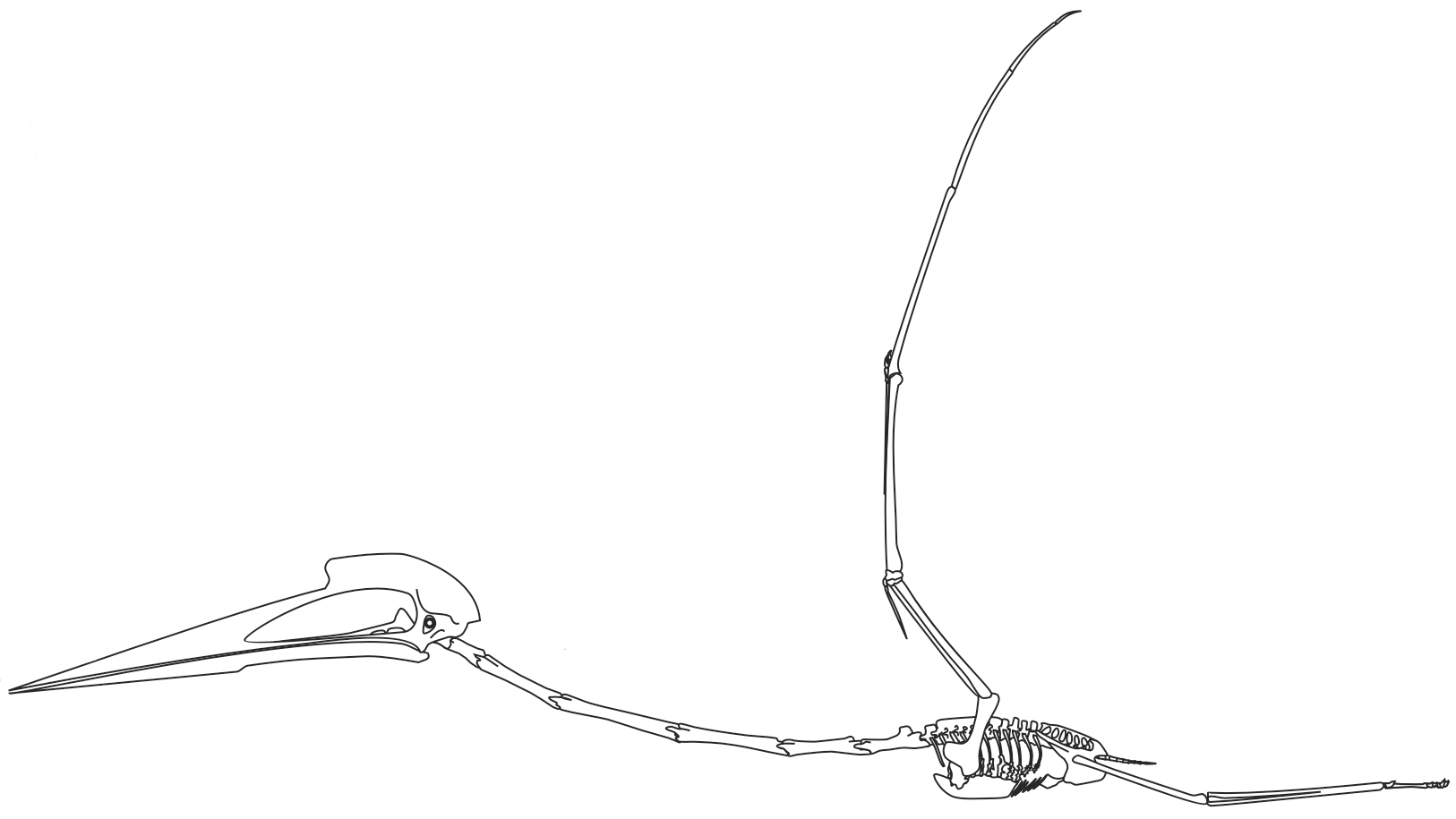 Skeletal reconstruction of Hatzegopteryx.